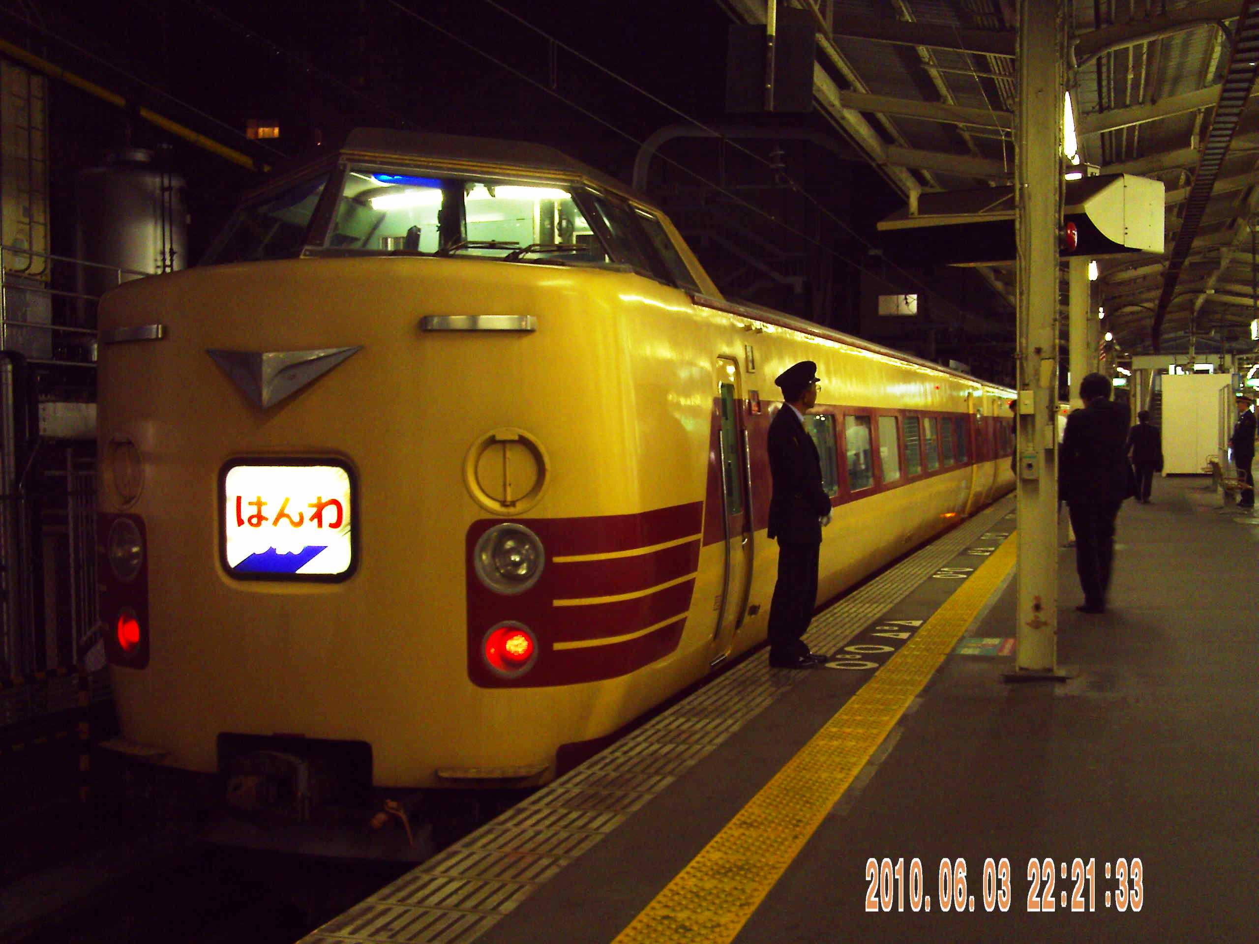 Hanwa-Liner JNR381 at Tennoji Station